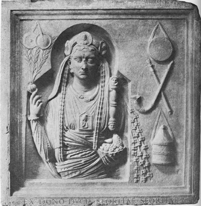 Funerary relief of a priest of Magna Mater (gallus) from Lavinium. Rome, Capitoline Museums (mid-second century AD).